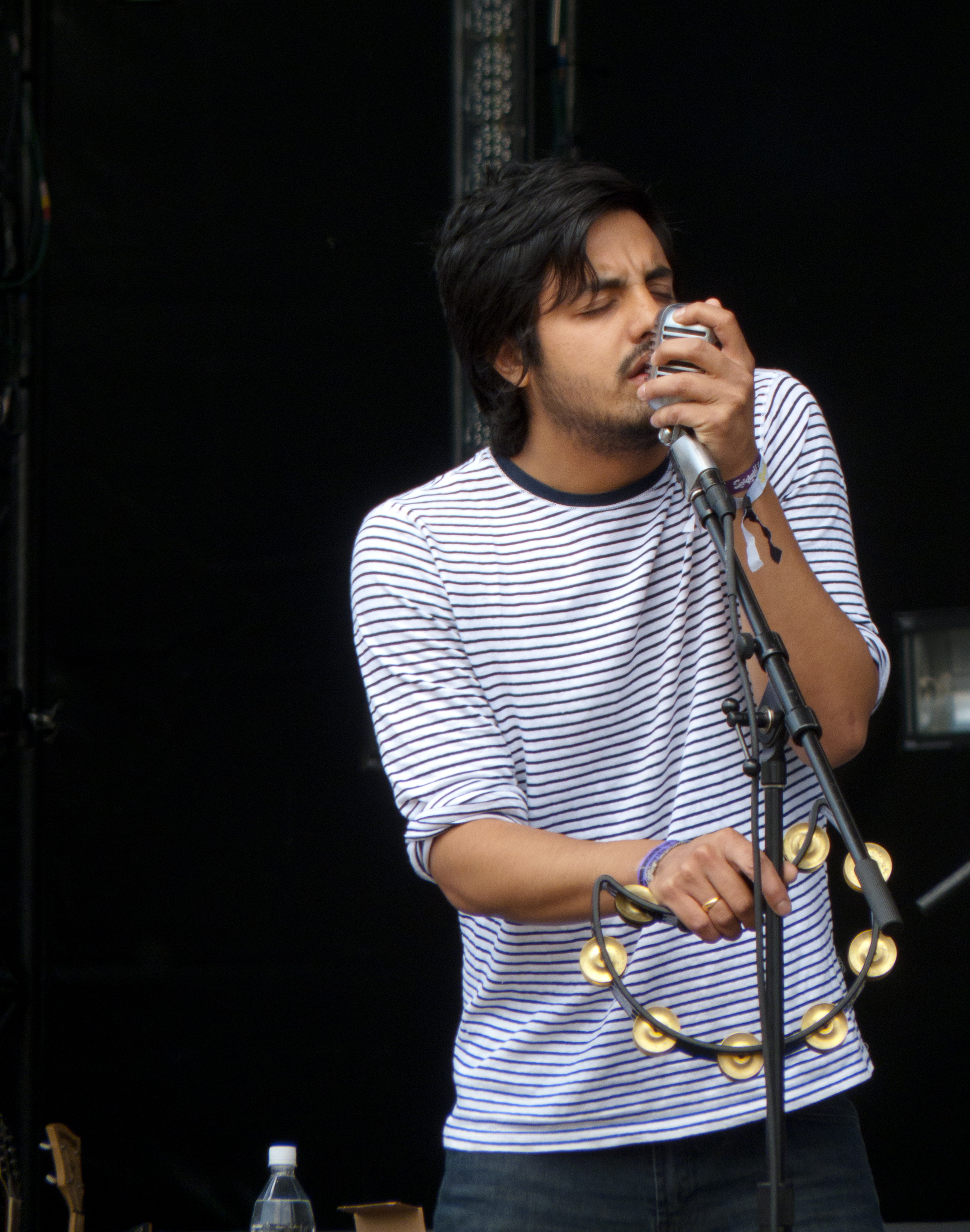 Young the Giant playing at Sasquatch Music Festival 2011